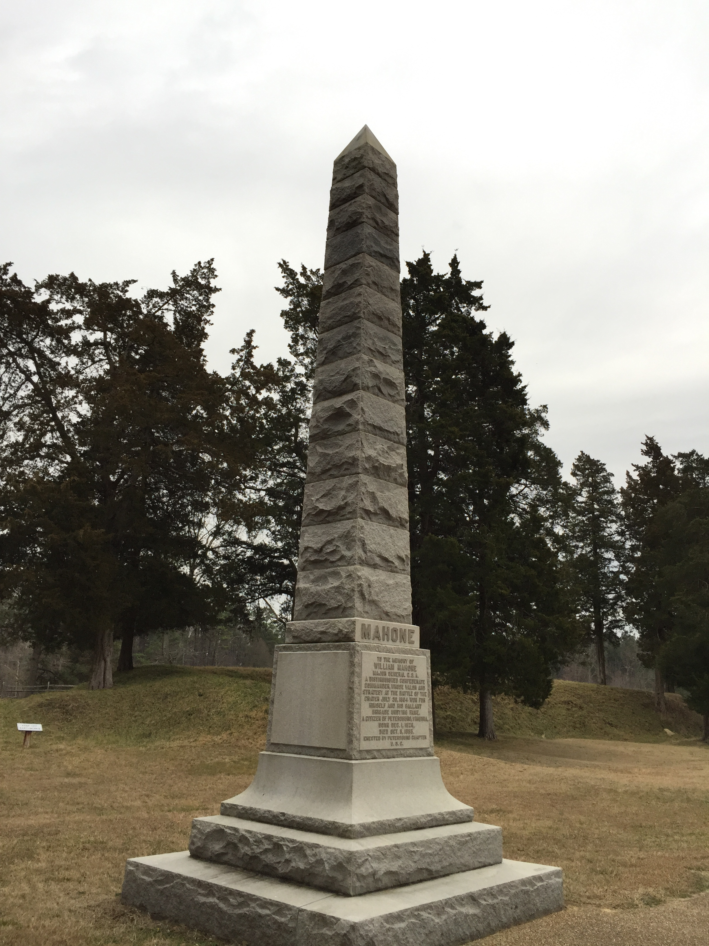 Major General Mahone Monument At The Crater